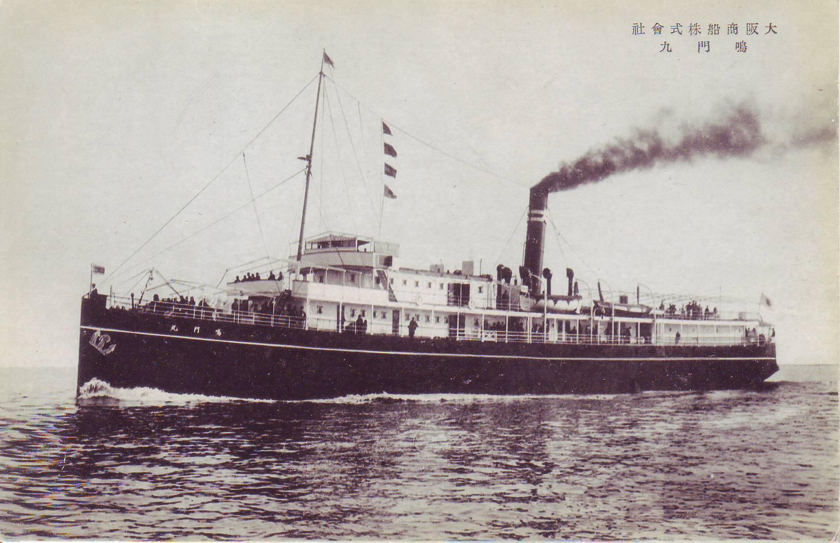 Postcard of OSK Line ship Naruto Maru (ex-Kurenai Maru, ex-Mei Shun (Norddeutscher Lloyd's Ship)). Cruise ships bound for Beppu.